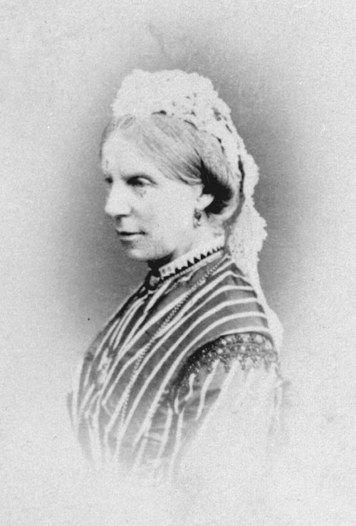 Abraham caroline harriet, via Anne Kirker. 'Abraham, Caroline Harriet', from the Dictionary of New Zealand Biography. Te Ara - the Encyclopedia of New Zealand, updated 23-Sep-2013 URL